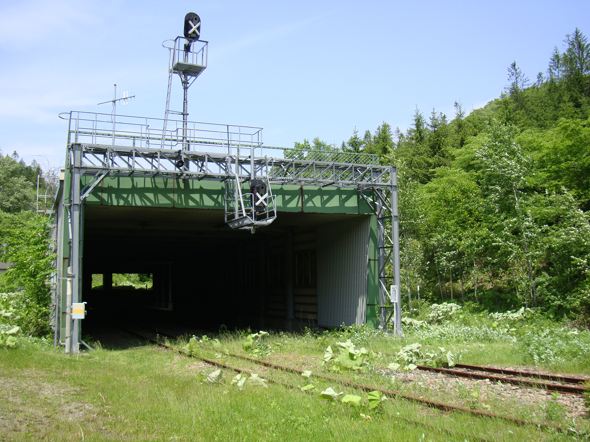 Jōmon Signal Base